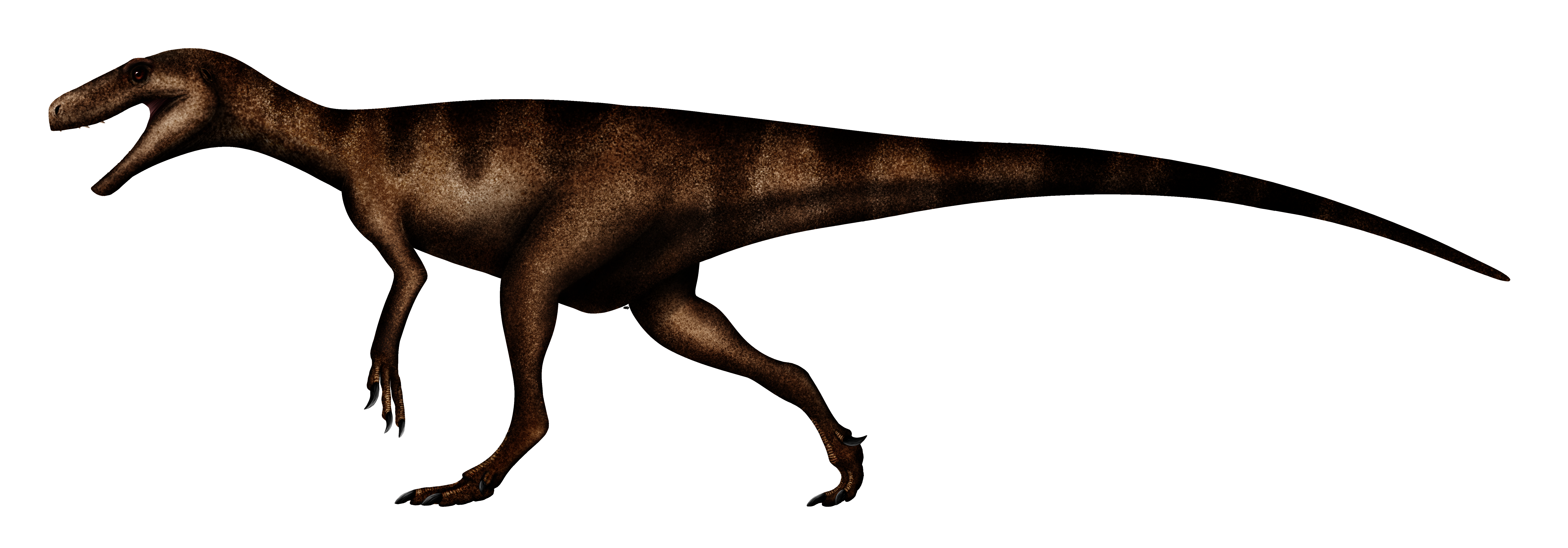 Artistic reconstruction of Herrerasaurus, speculative colouration, correct anatomy. Reconstrution based on 2019 evidence and understanding of the animal.